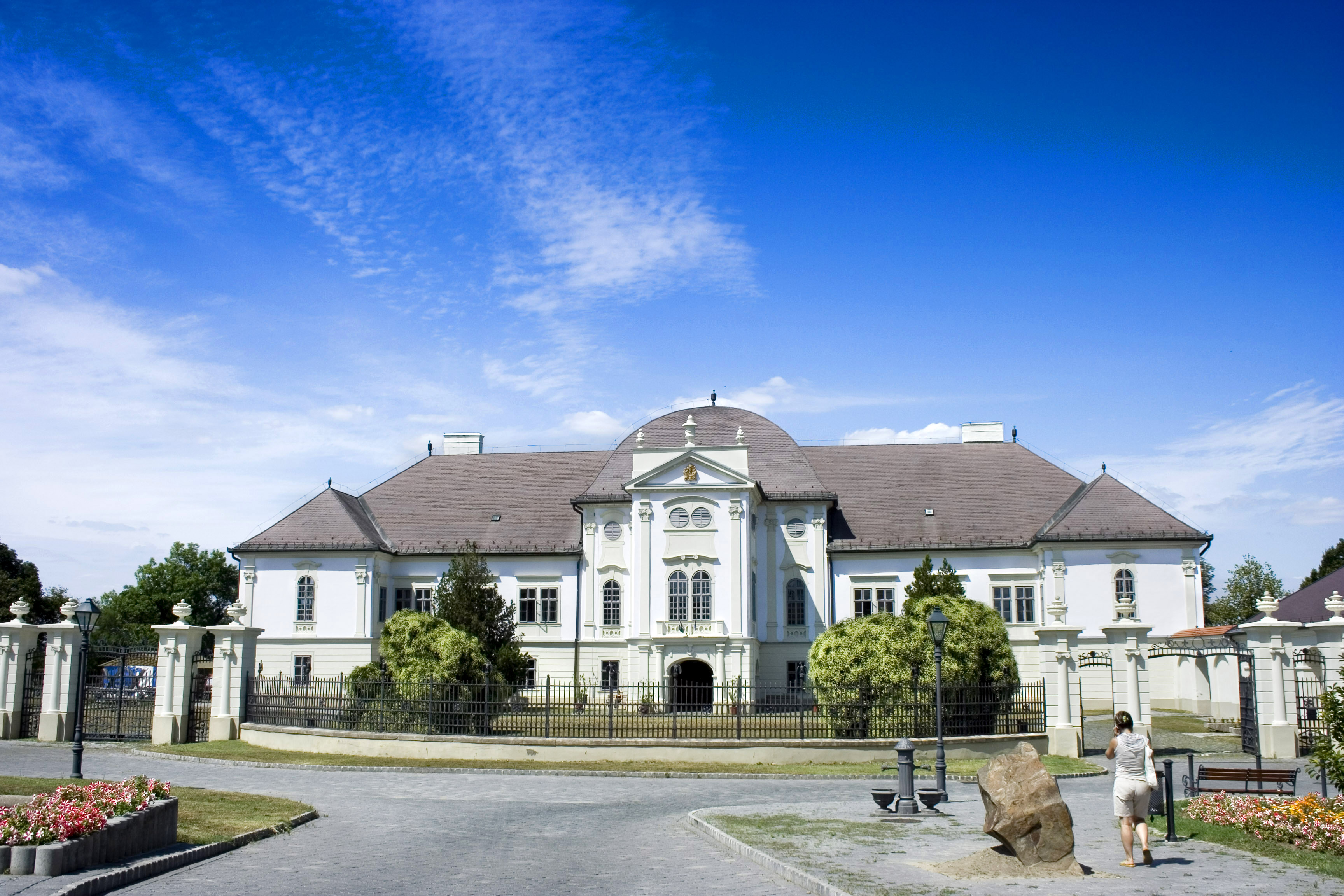 Szécsény - The Baroque building of the Palace Forgách, Hungary